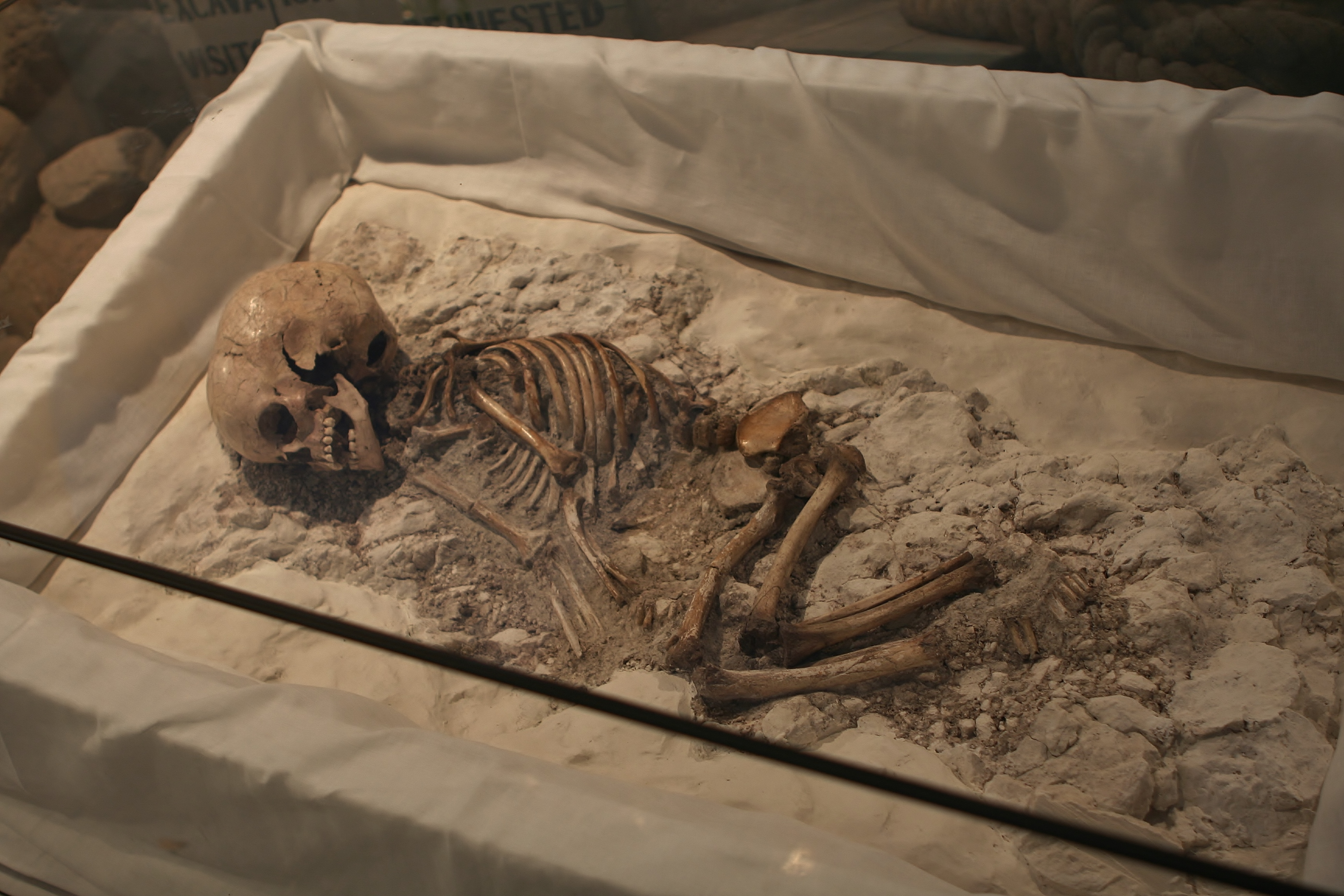 This image shows Charlie the Skeleton